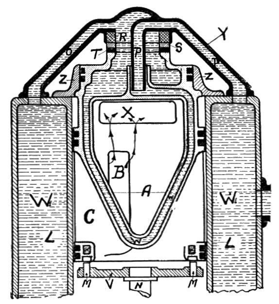 Itala Itala rotary valve Scans from 'The Book of the Motor Car', Rankin Kennedy C.E., 1912 See other images from this source in Scans from 'The Book of the Motor Car'